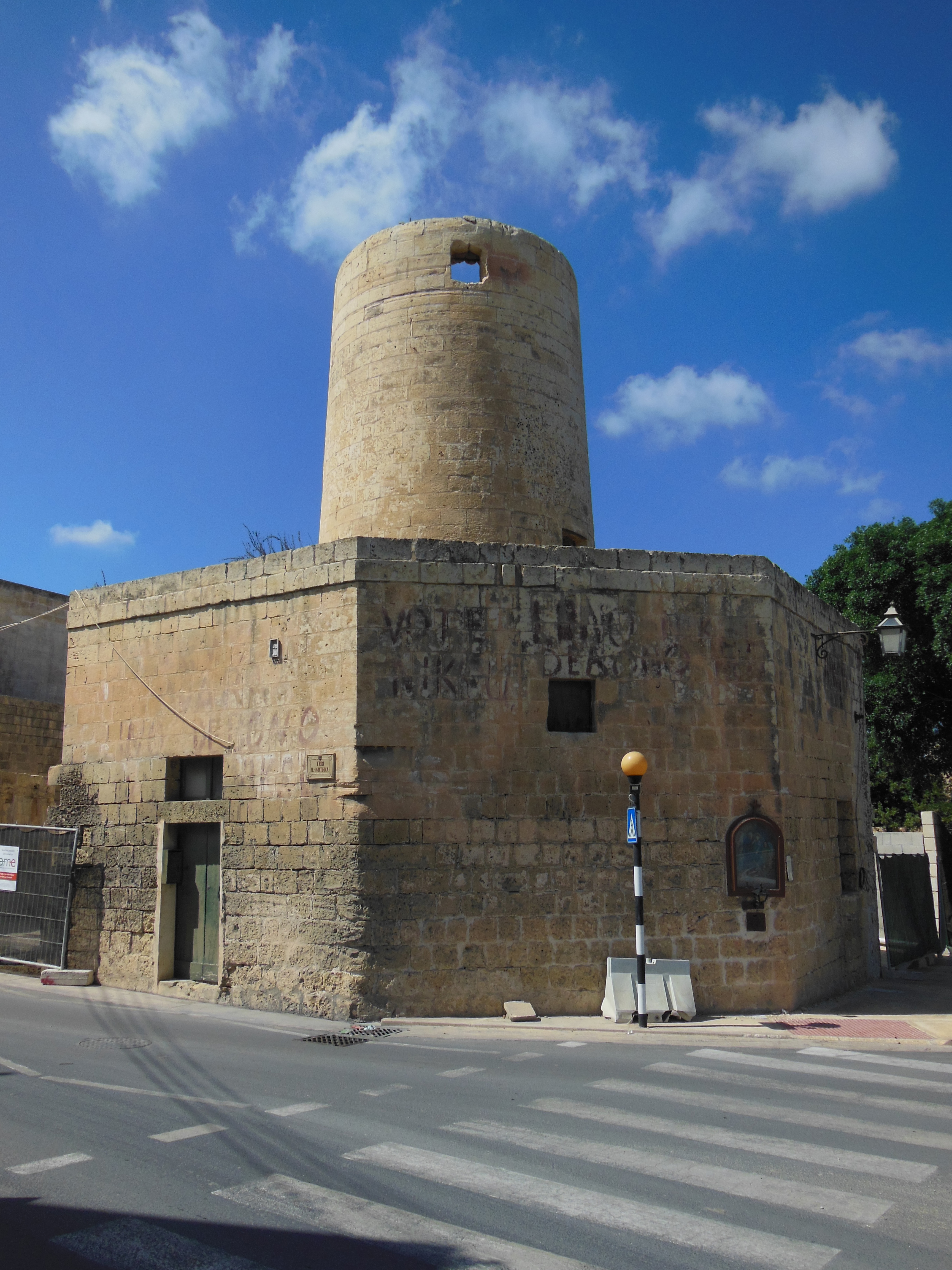 Xewkija Windmill Closeup.